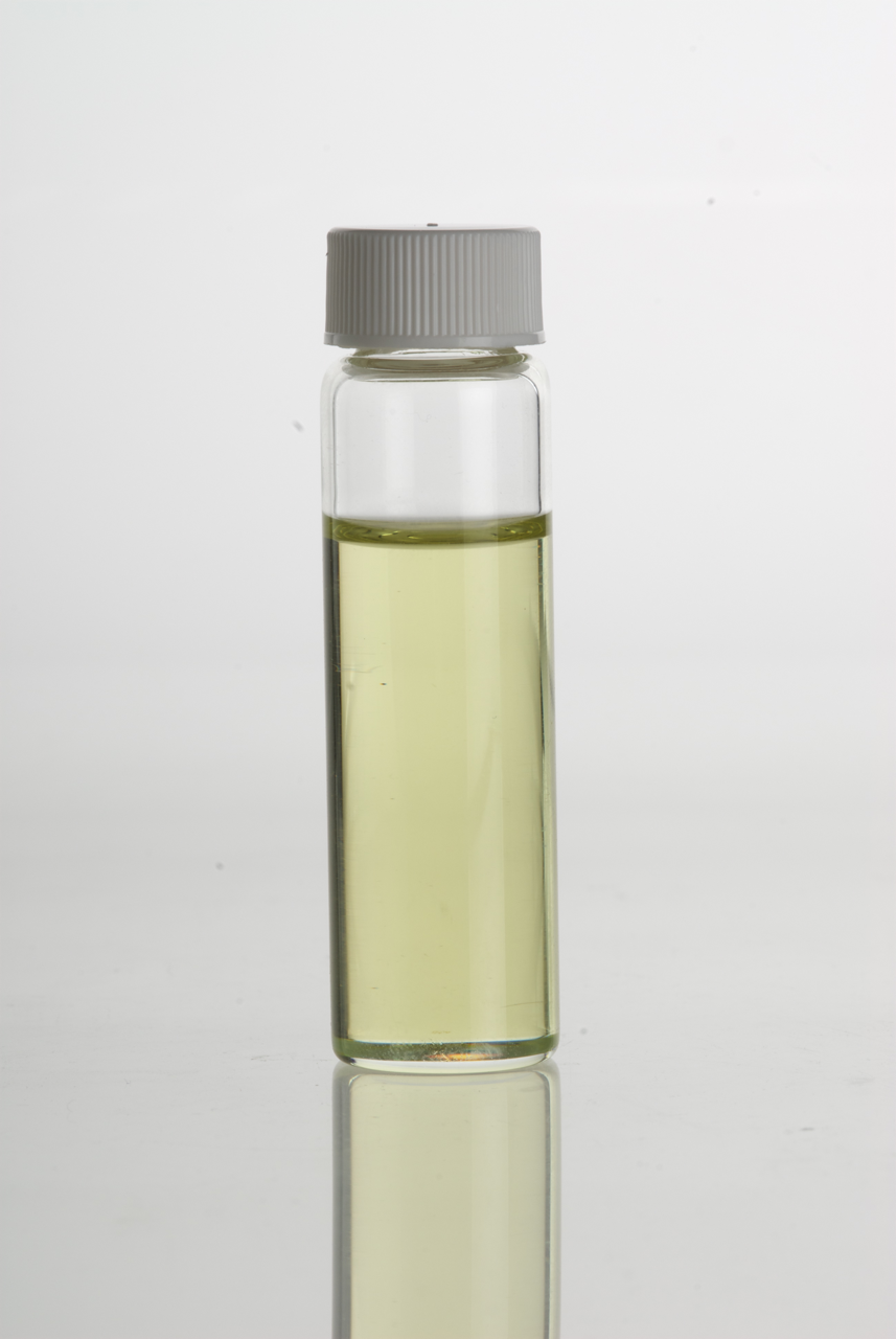 Grape (Vitis vinifera) Seed Oil in clear glass vial